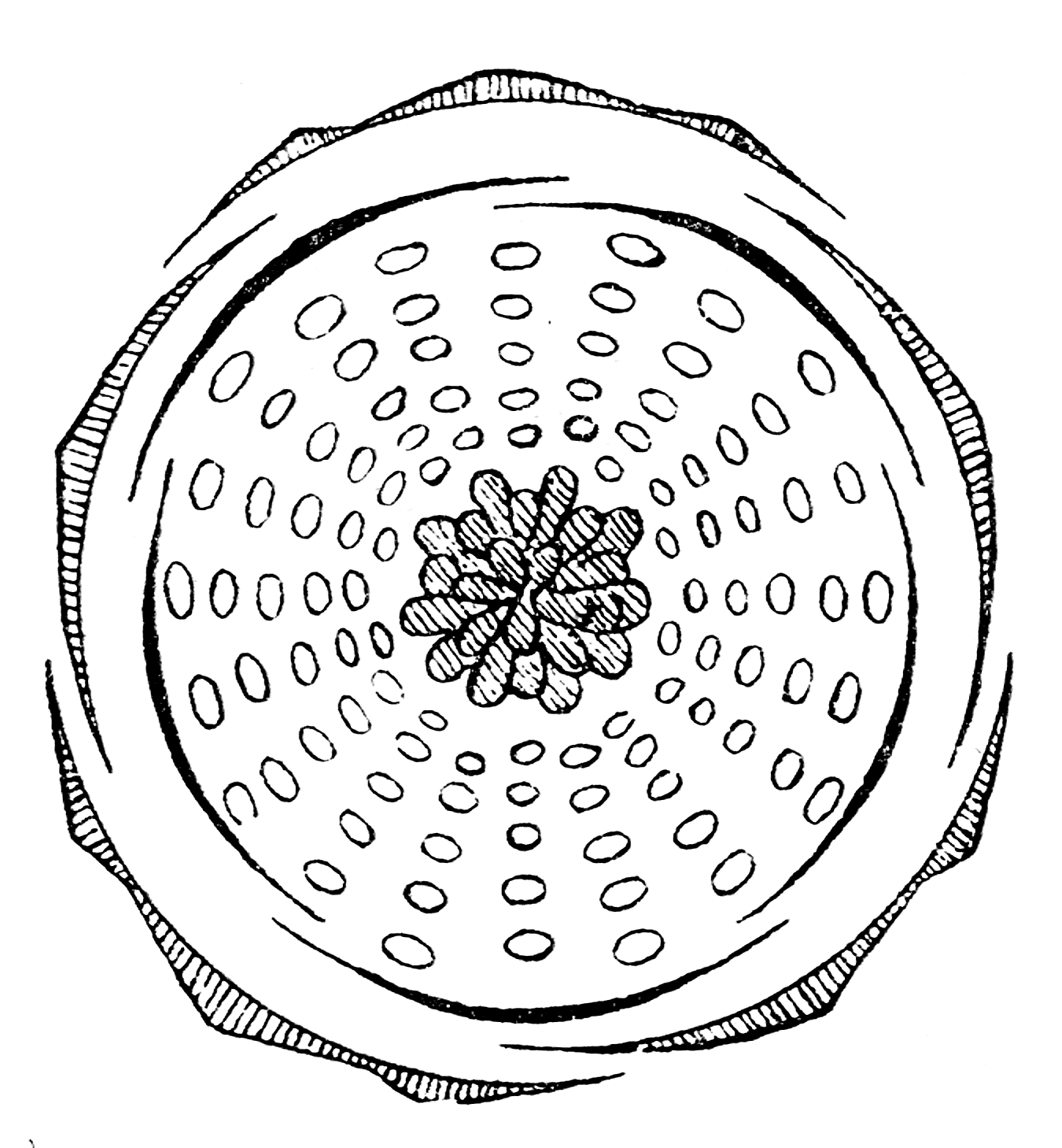 Diagram of a flower of Rosa tomentosa (Rosaceae)